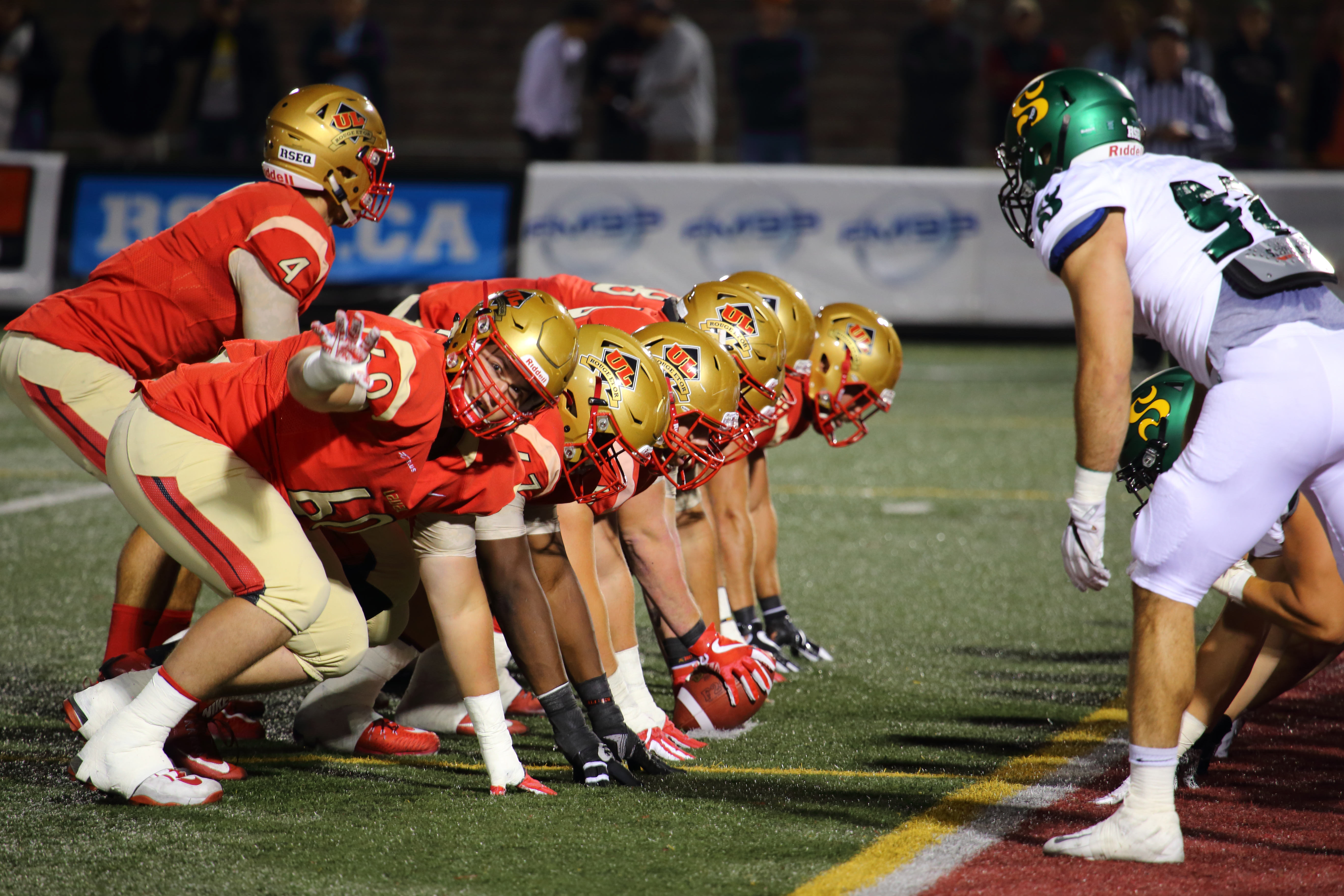 Football game opposing Laval Rouge et Or and the Vert et Or at Université Laval.